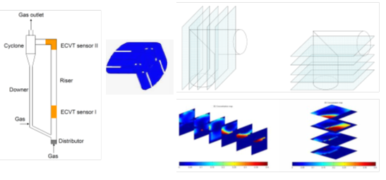 ECVT Imaging in the Bend of a Fluidized Bed Riser